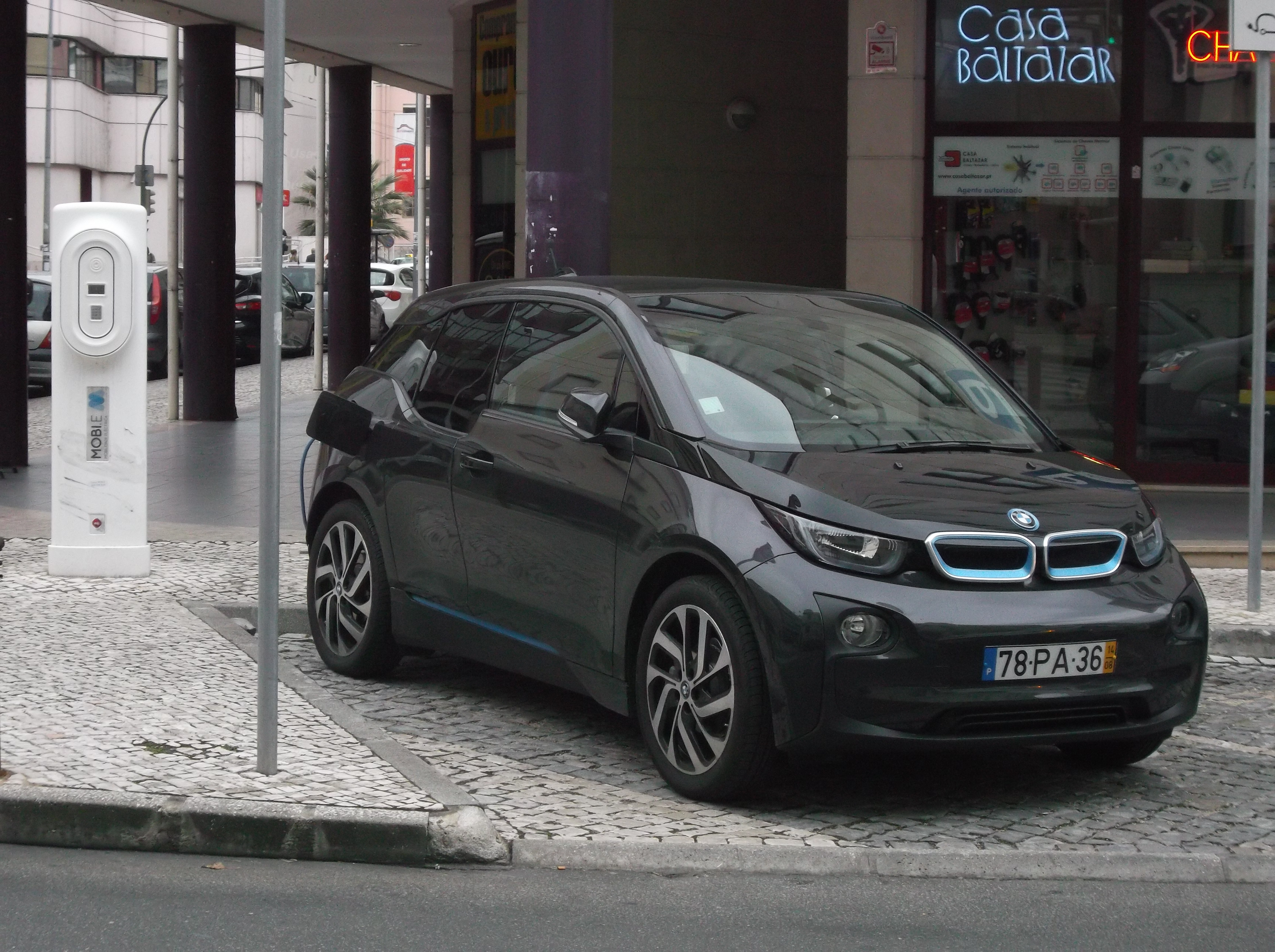 2014 BMW i3 charging in Coimbra, Portugal